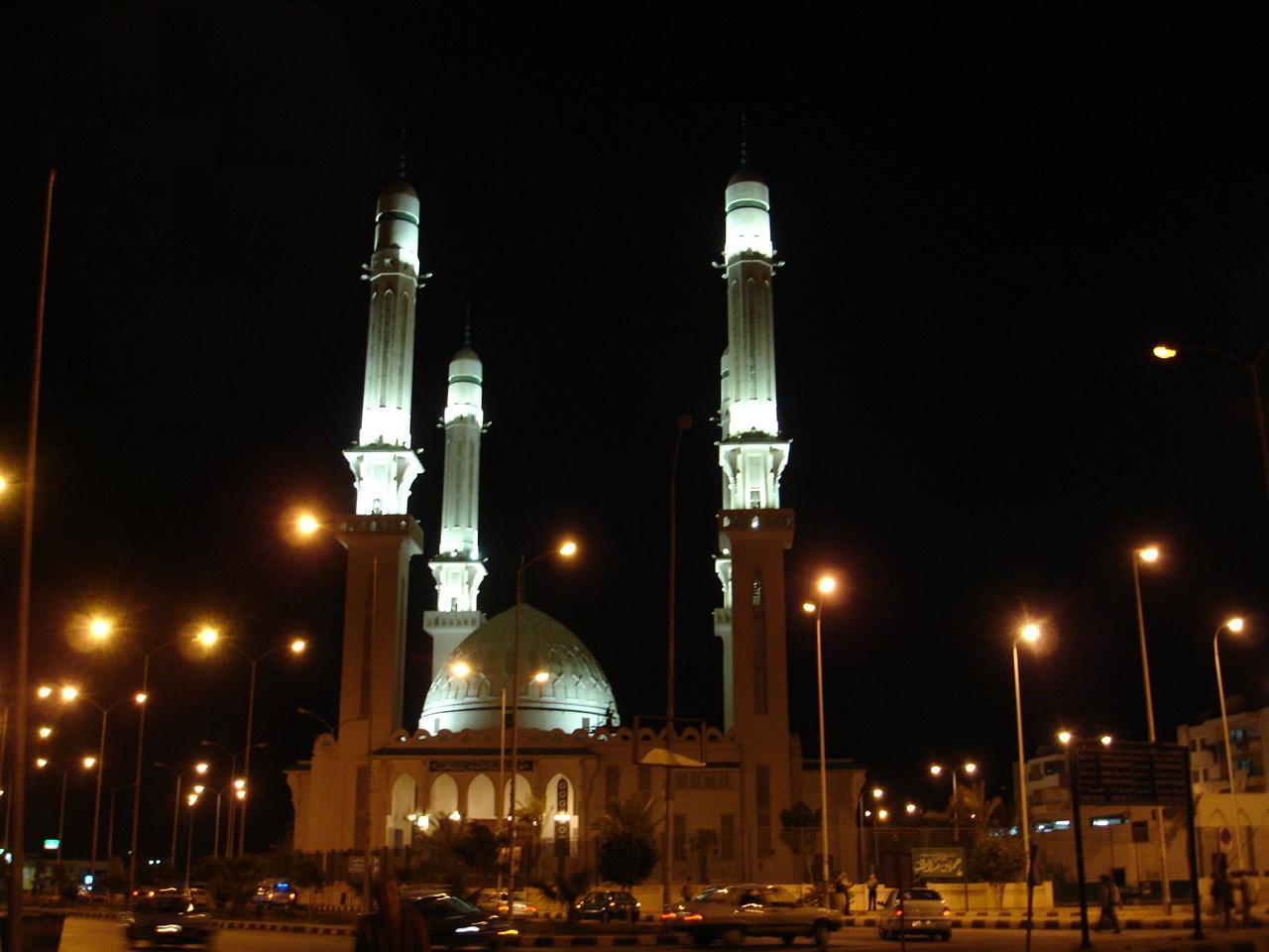 Masjid 'Hamza ( Mosque of 'Hamza) in Suez, Egypt. (Author: Amr Fayez) Category:Suez